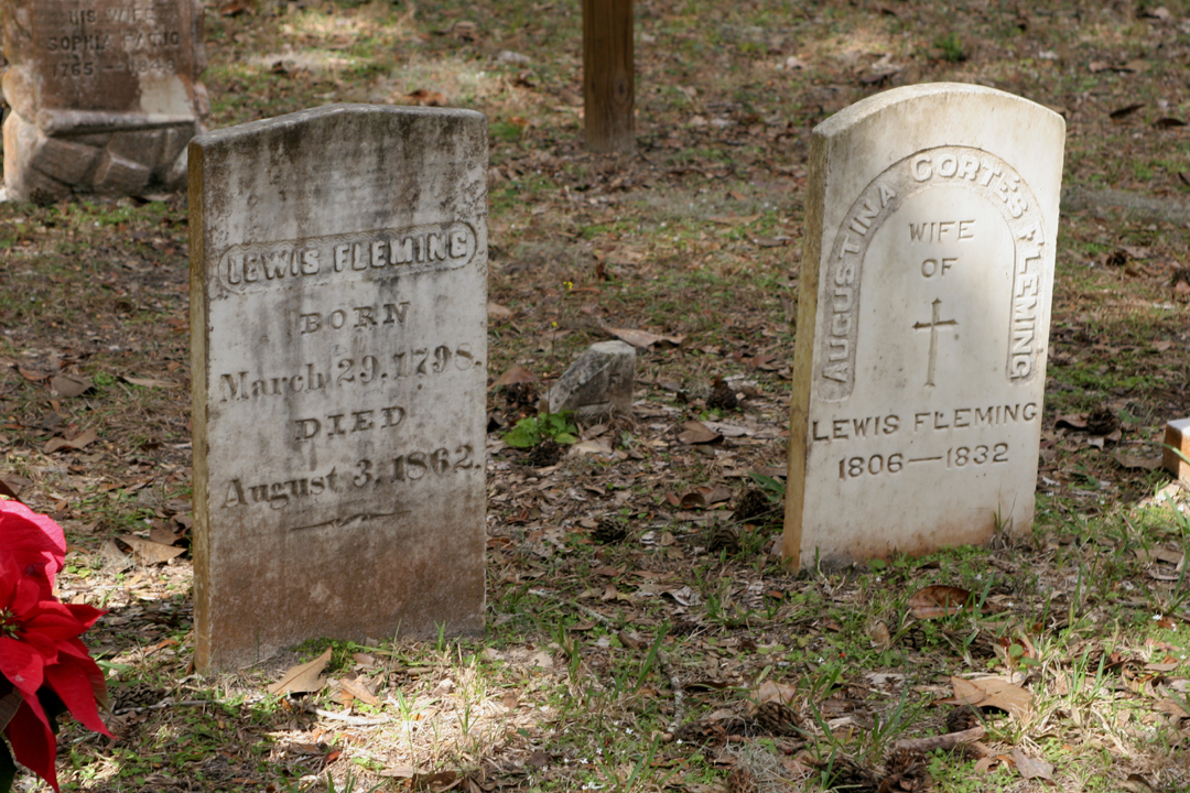 David Johnson